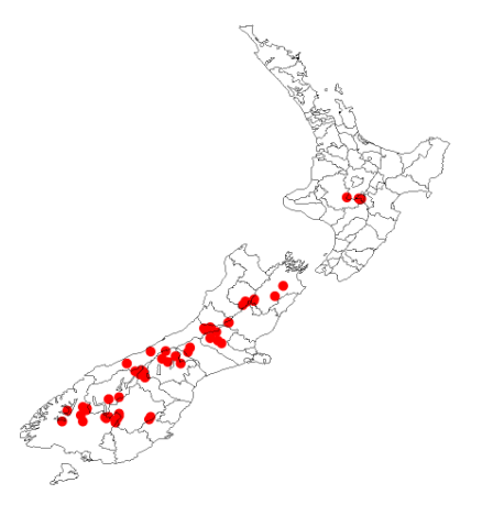 Carex berggrenii New Zealand occurrence data from Australasian Virtual Herbarium downloaded 27 November 2019 using DOI